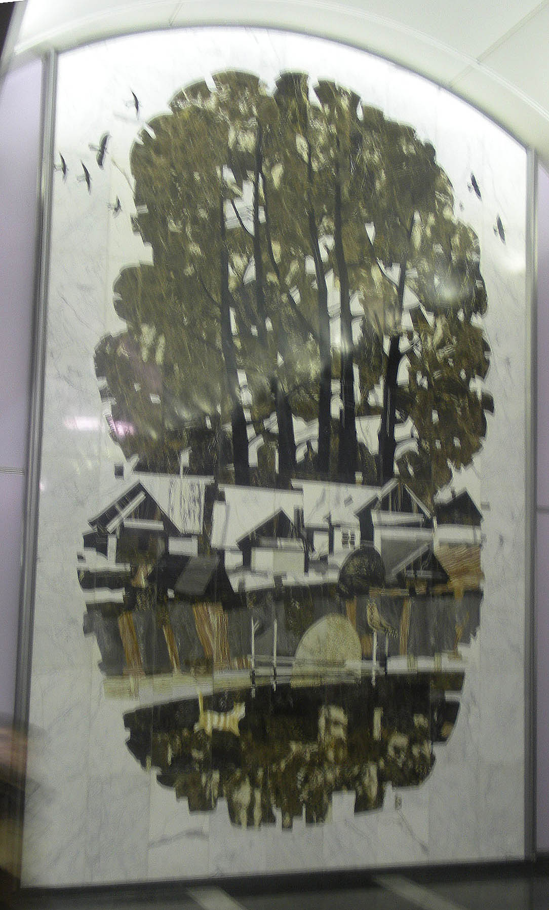 Mosaic on the Volkovskaya station of Saint Petersburg metro.